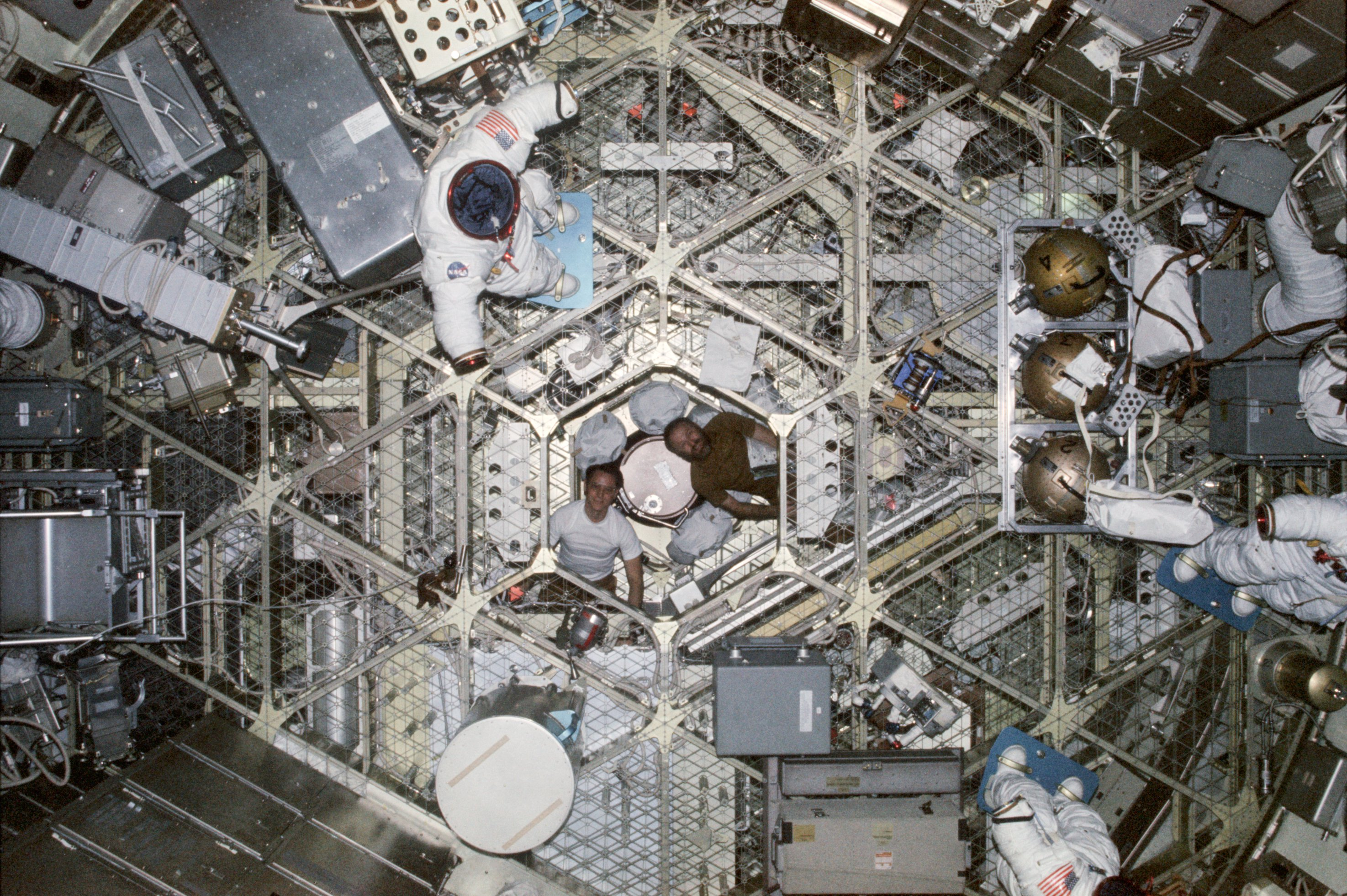 Photograph taken from the hatch into the airlock module looking the length of the Skylab Orbital Workshop. Skylab 4 Scientist-Astronaut Edward G. Gibson, science pilot, and Astronaut Gerald P. Carr, commander, look up the passageway with trash bags around them.